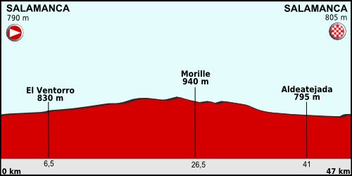 Profile of the 10th stage: Vuelta a España 2011